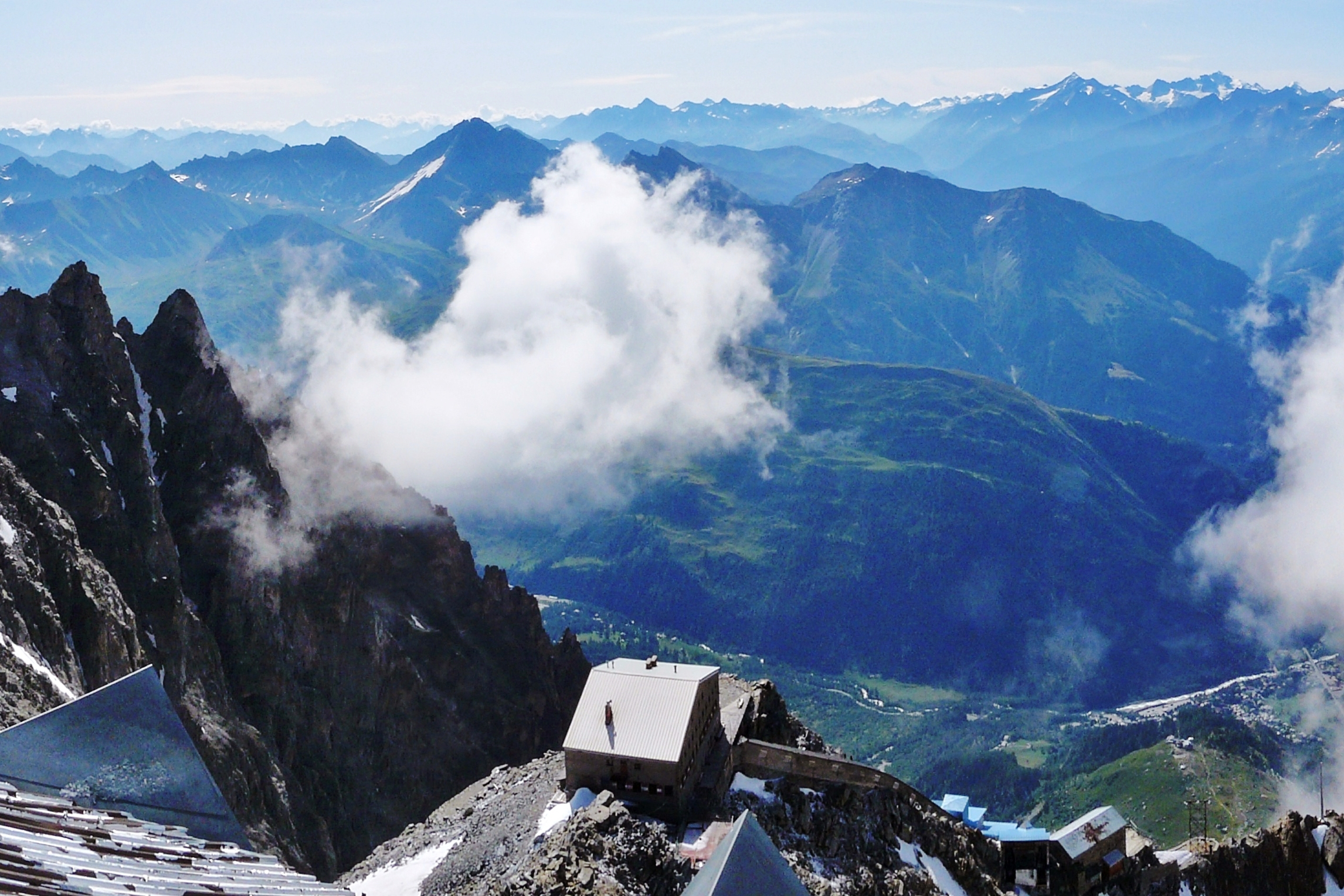 A view towards east and southwest from Punta Helbronner in 2009 July.